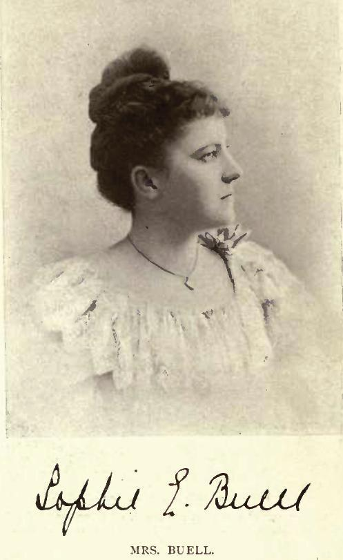 Mrs Sophia Buell by Dow, Ogdensburg